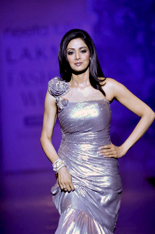 Sridevi at at Neeta Lulla's show for Lakme Fashion Week 2010